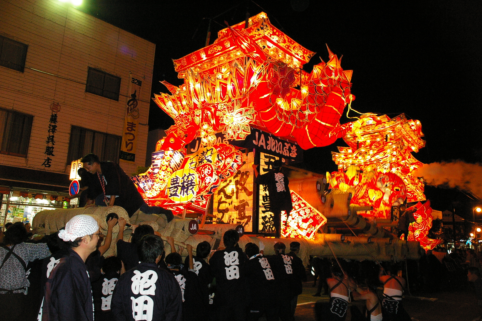 Numata andon festival.